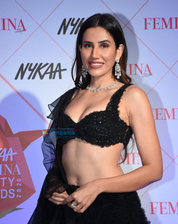 Sonnalli Seygall